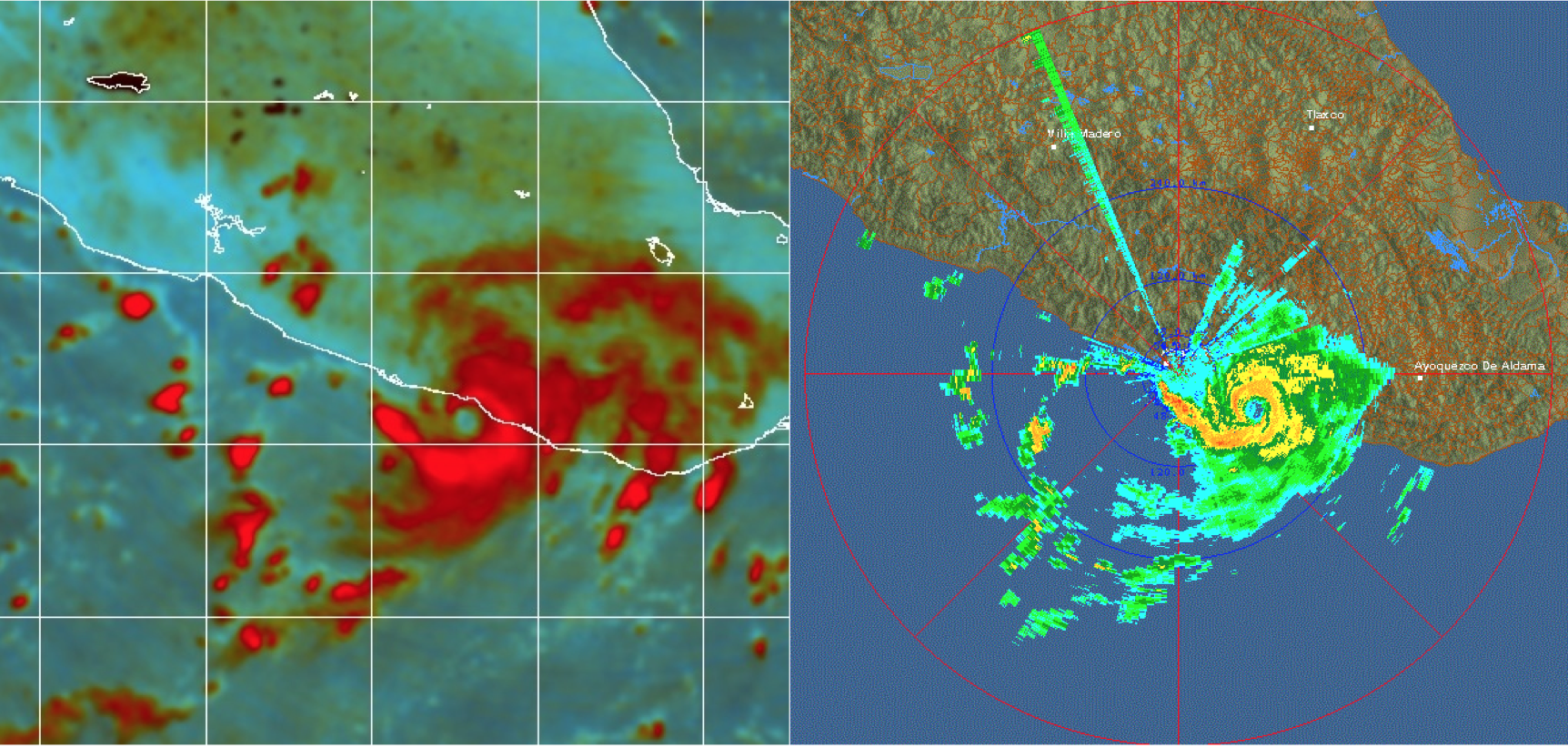 Microwave satellite and radar imagery of Tropical Storm Trudy on October 18, 2014 as it made landfall in Mexico